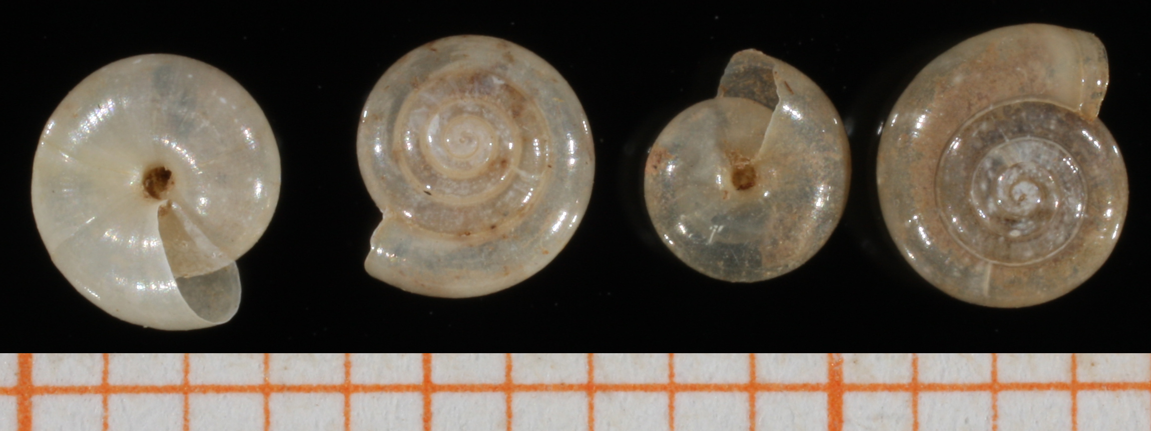 Vitrea crystallina (Müller, 1774), Pristilomatidae, Gastropoda, Mollusca, Locality: Germany: Niedersachsen, Leine river deposits near Seckborn